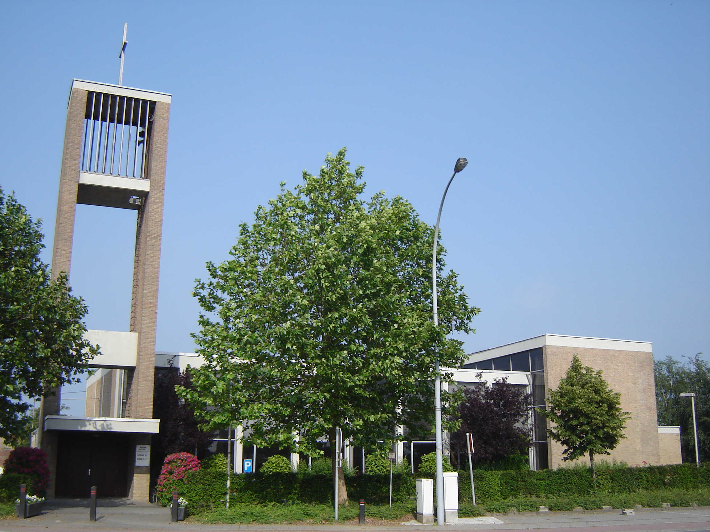 Church of the Holy Mother Anne in the Molenhoek quarter, Deerlijk. Deerlijk, West Flanders, Belgium